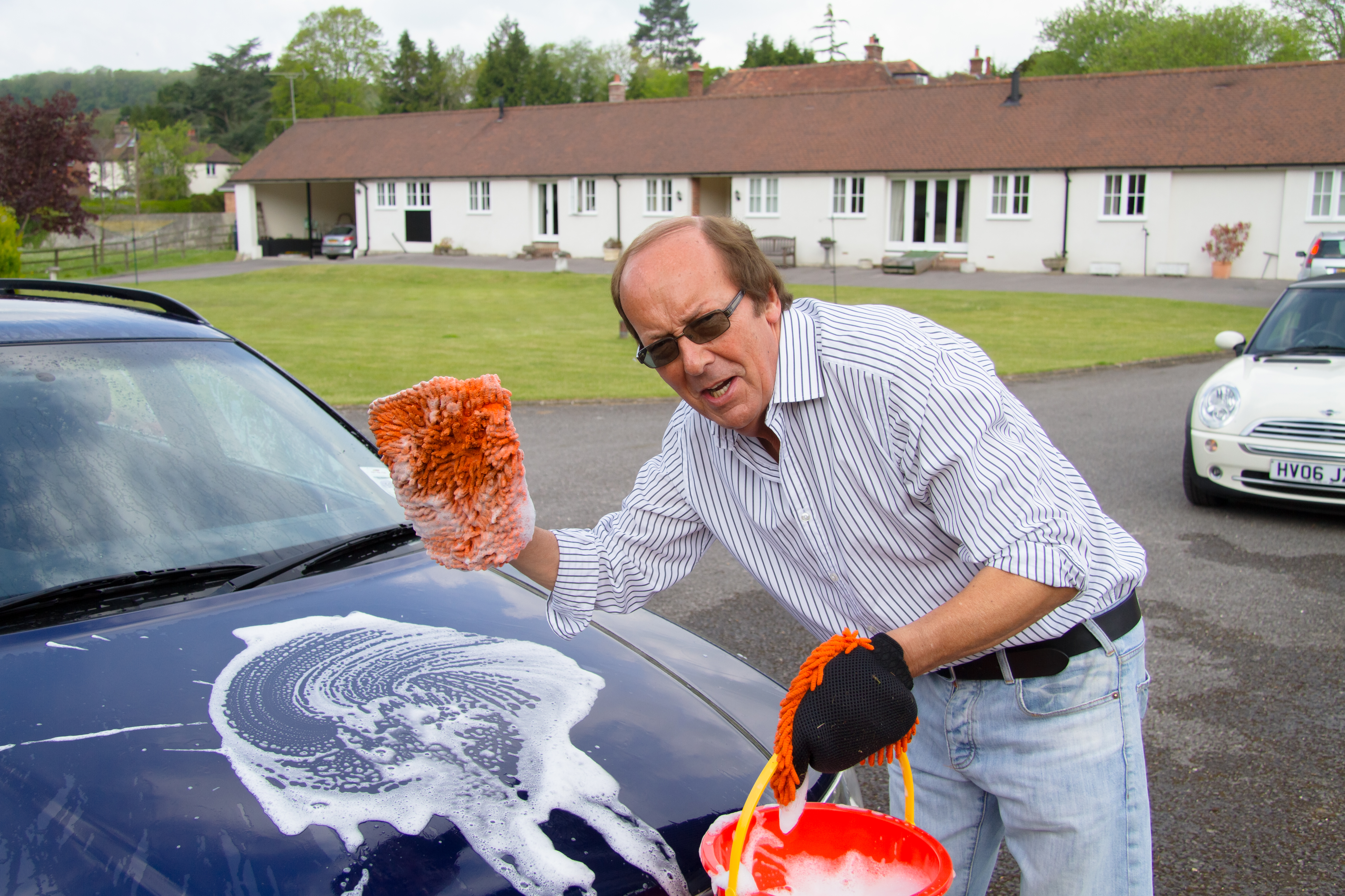 described on Flickr as 'Here's one of the southern TV legend Fred Dinenage pitching in at a free car wash in Hambledon. He's a genuine bloke and did a "How" just for me! It was a special moment'